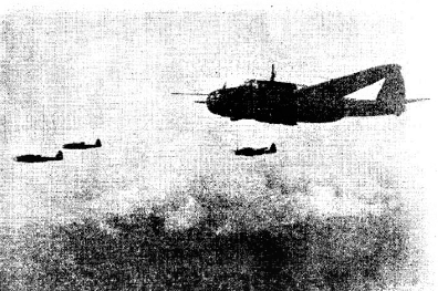 Vanda Corps Kawasaki Ki-48 in training